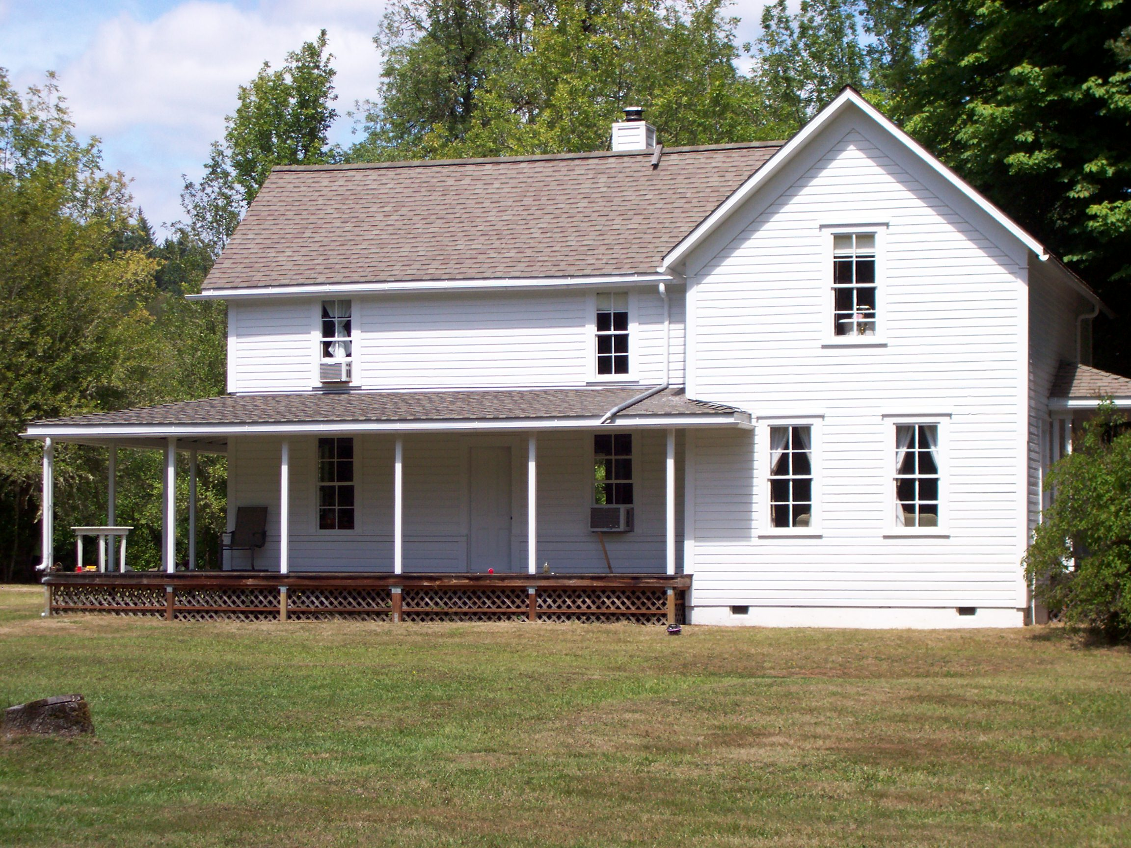 Charles King House in Wern Ogegon. Listed on the National Registor of Historic Places.